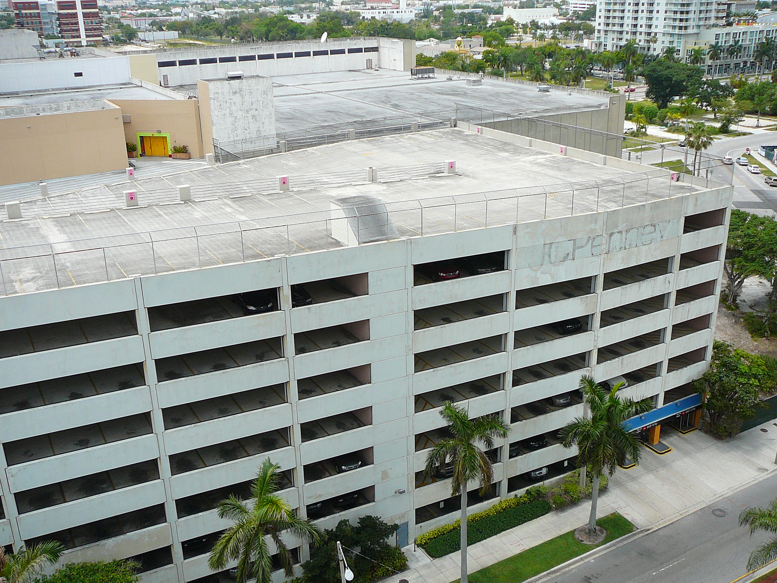 Digital photo taken by Marc Averette. The north side of the old Omni parking garage. 4/29/2008.